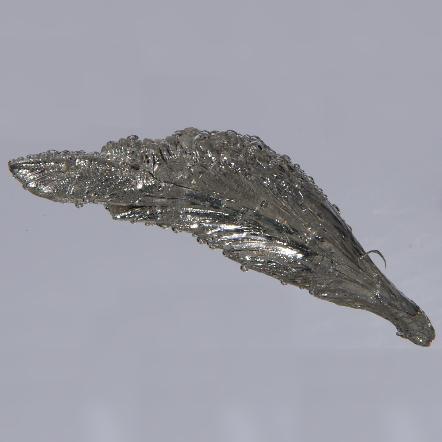 Metallic Magnesium.